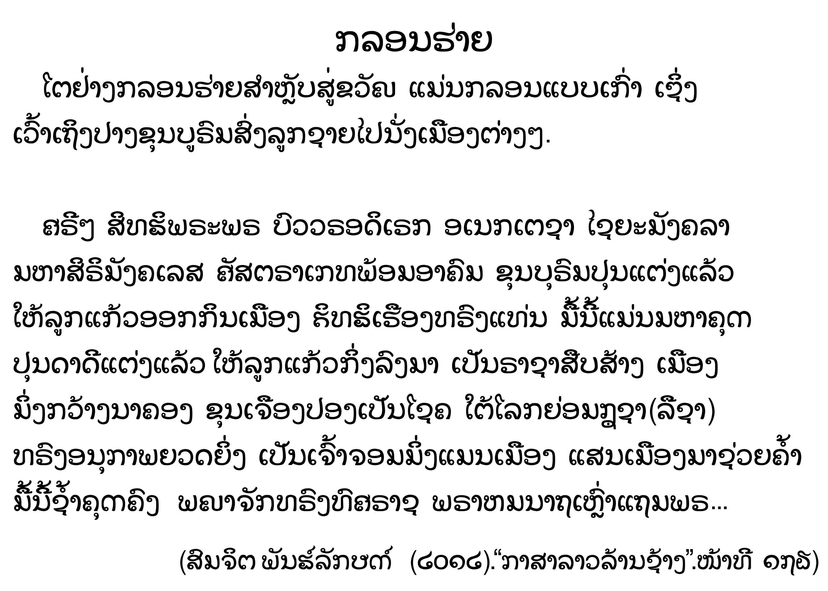 Lao poem written with Lao Pali script